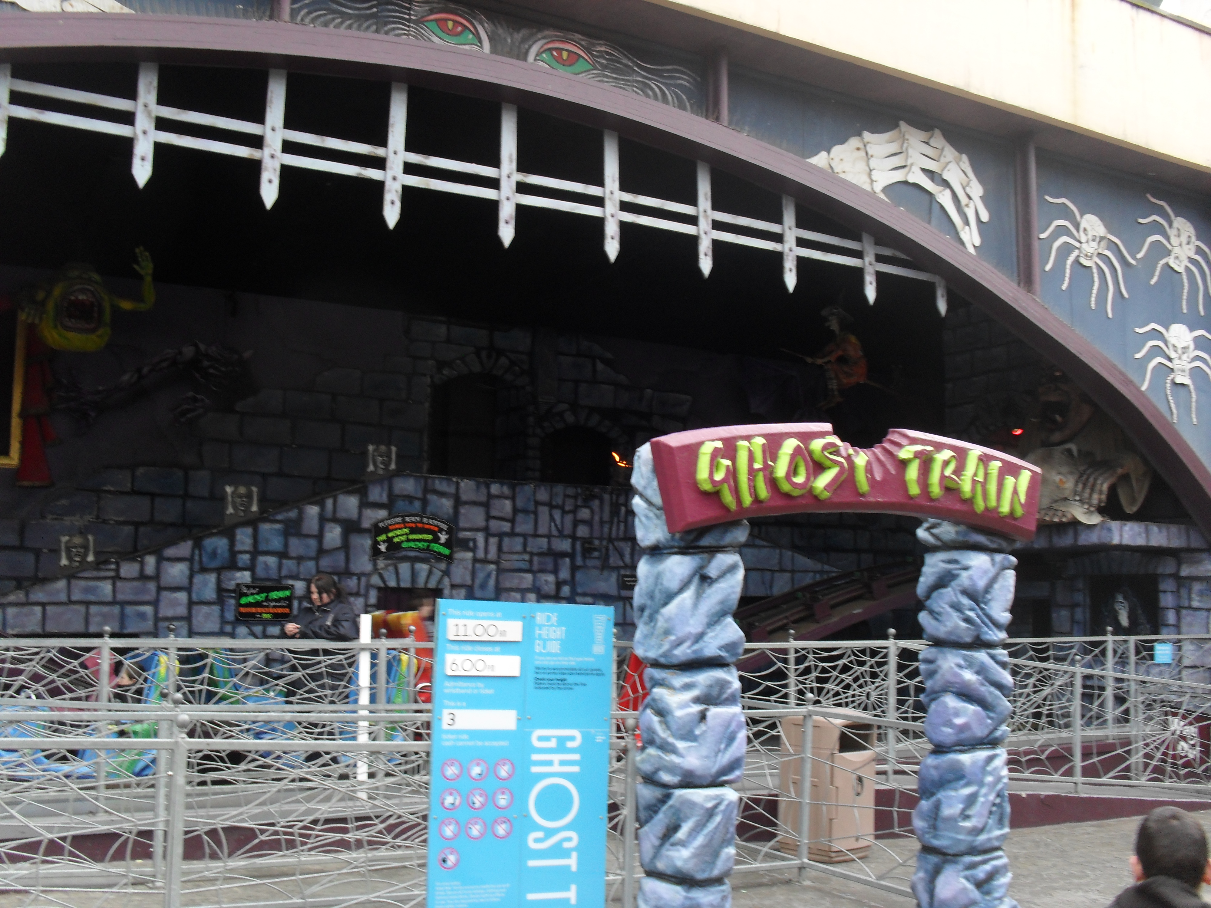 Ghost train at Pleasure Beach Blackpool, England, United Kingdom